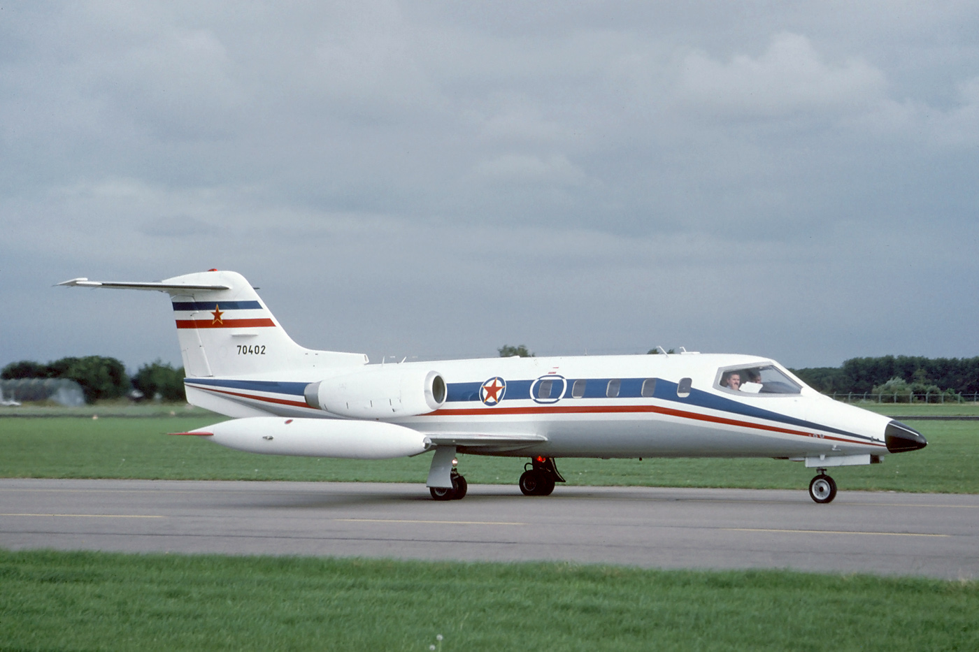 Valkenburg, 7 September 1991. During the Yugoslav civil war in the 1990s, government delegations of both sides (Serbia vs the new republics) came to The Hague several times to negotiate. The Serbs were flown in by Falcons 50s or this LearJet 25B. 70402 still has the (former) Yugoslav Air Force markings.